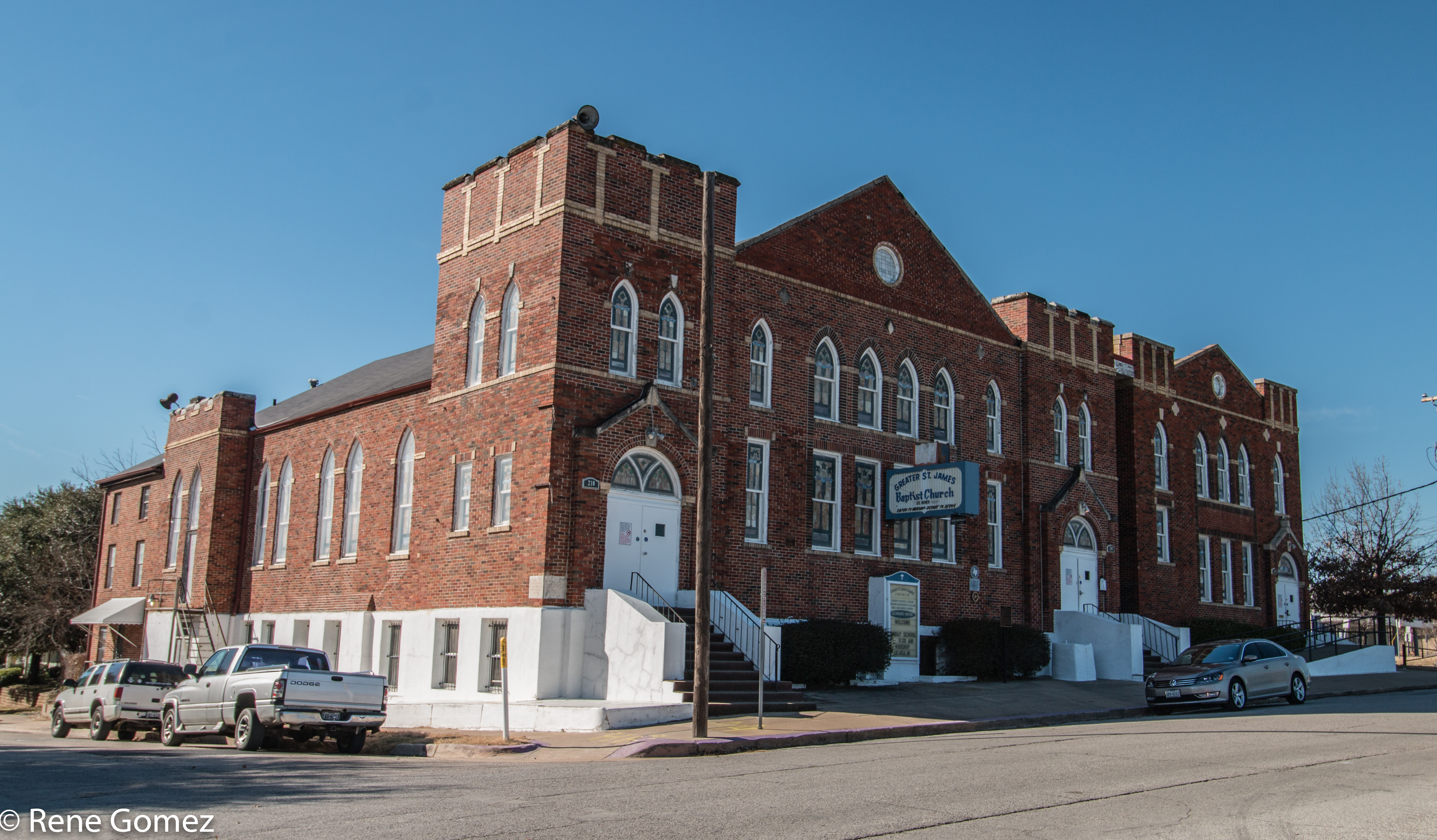 Greater Saint James Church in Fort Worth, Texas